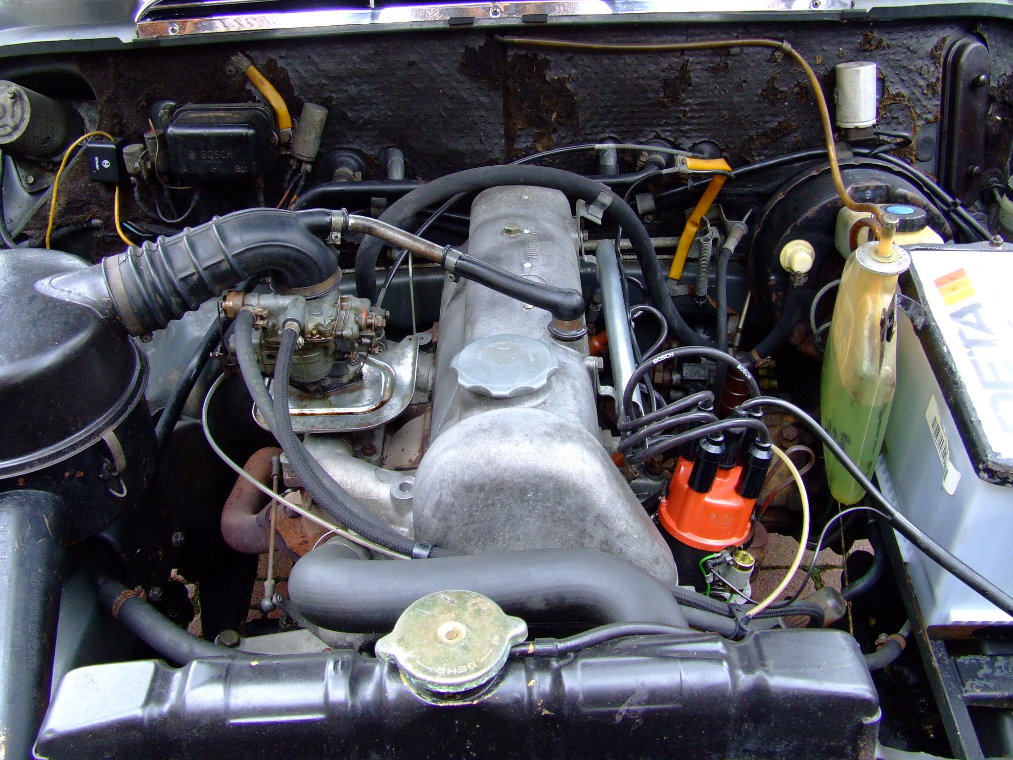 This picture shows the M121 engine 4-Cyl. 1.9 litres / 80HP of a 1964 W110 190c.